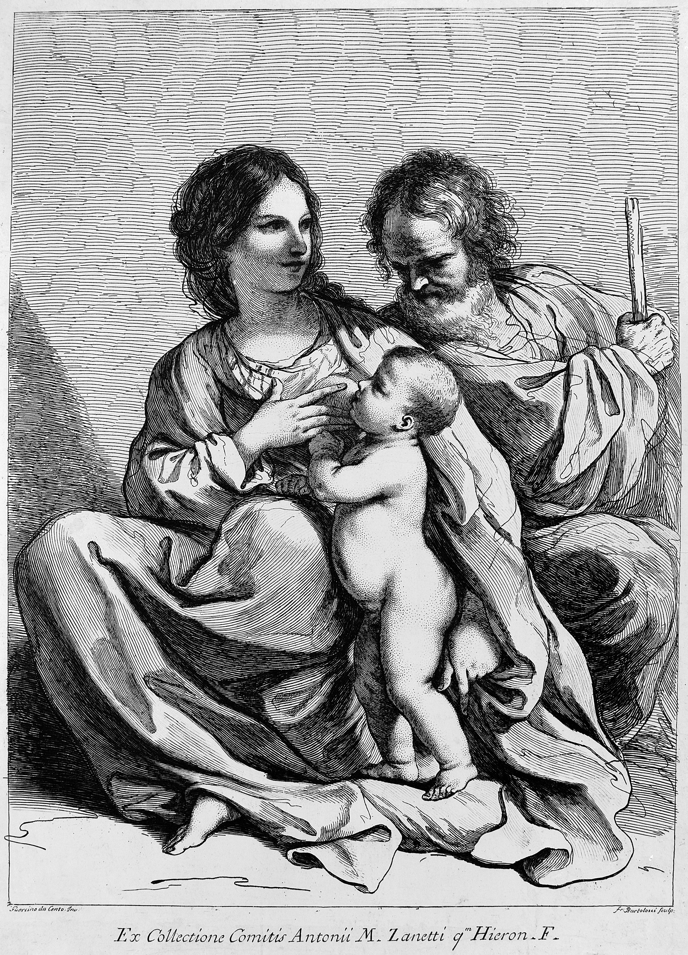 A woman sitting next to her husband and breast feeding her child. Etching by F. Bartolozzi after G. Guercino. Iconographic Collections Keywords: Giovanni Francesco Barbieri; Francesco Bartolozzi